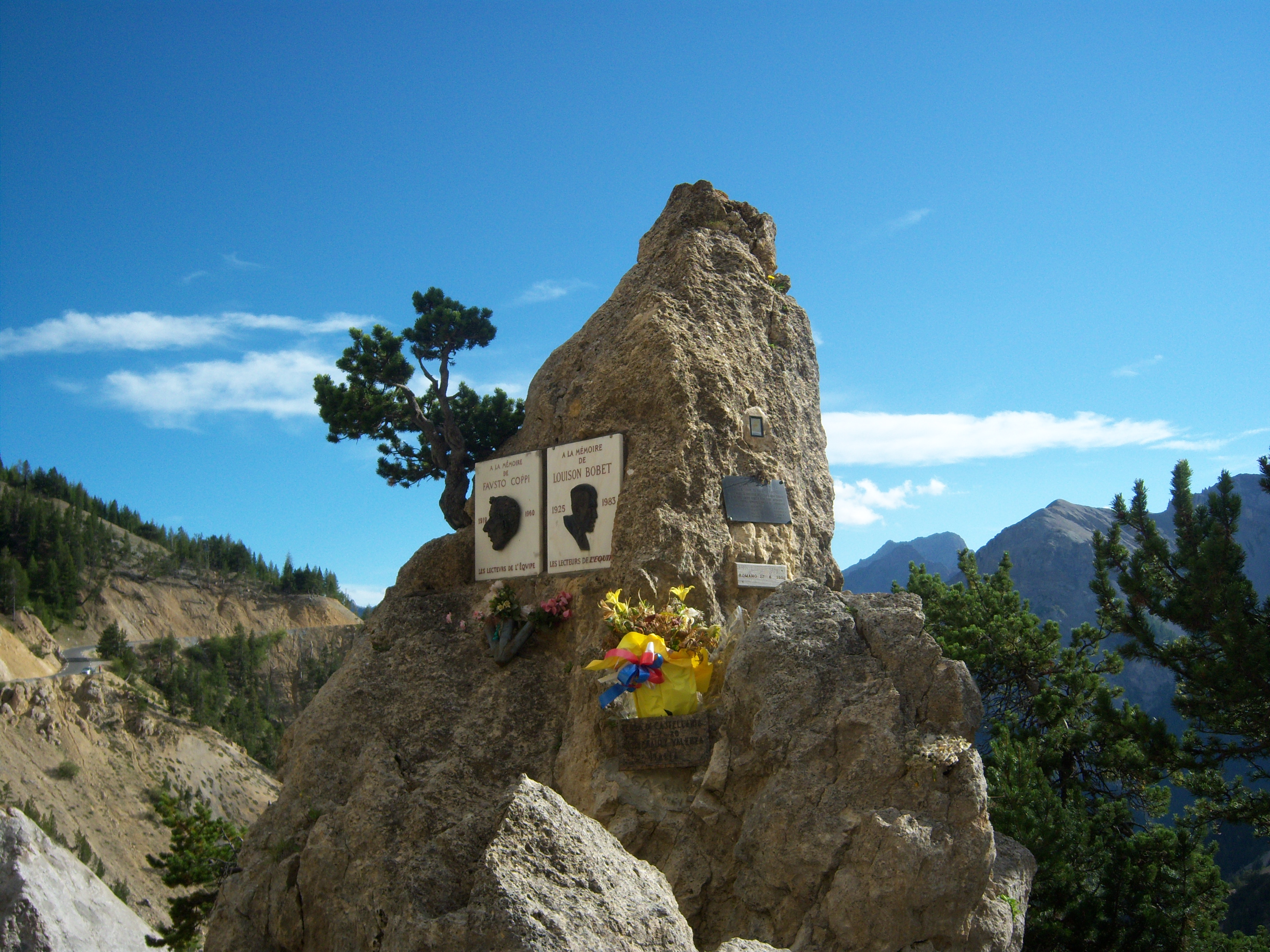 Coppi's memorial at the Casse Deserte at the Izoard's pass